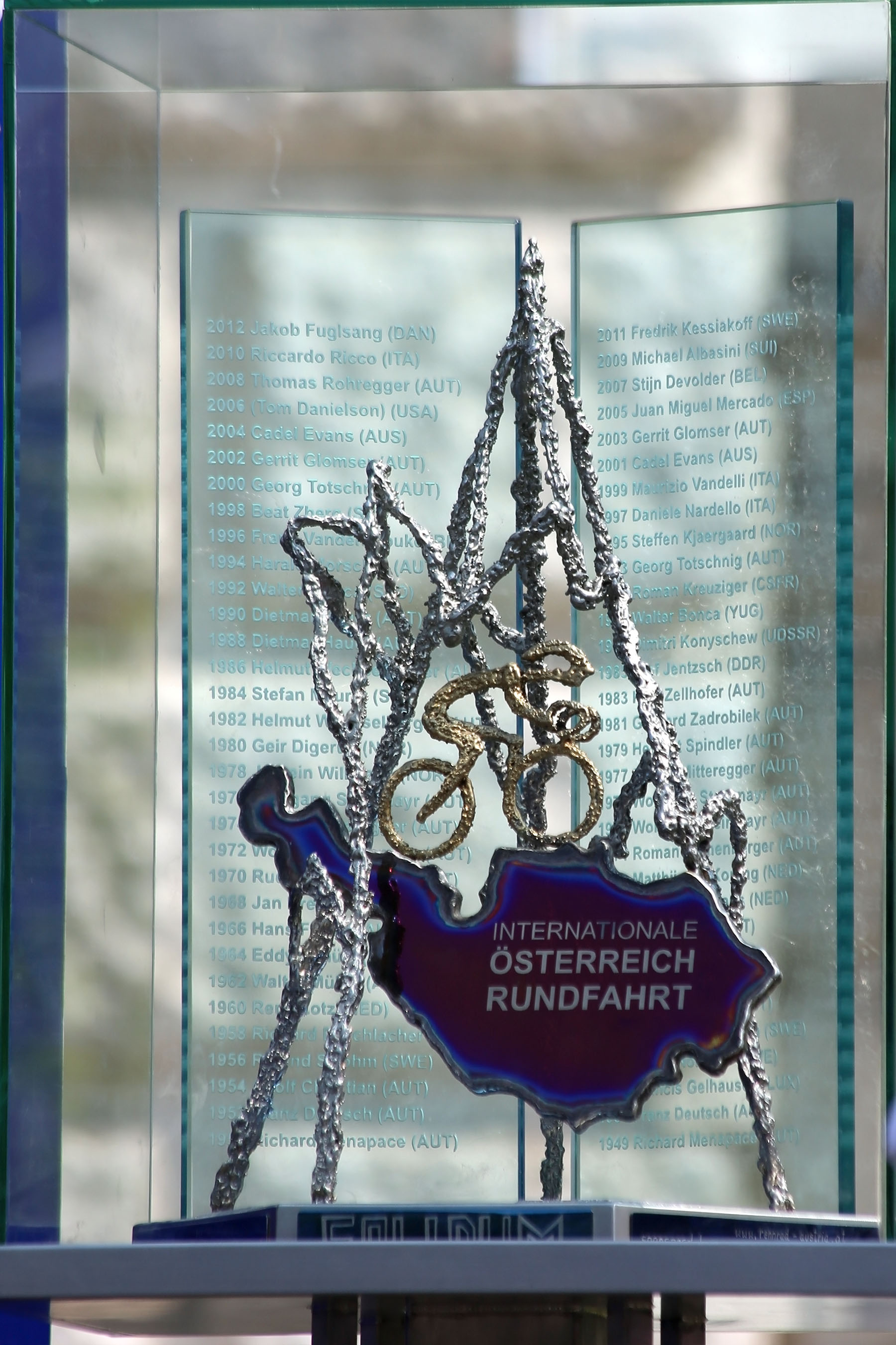 Trophy of the Tour of Austria; Vienna, Austria.